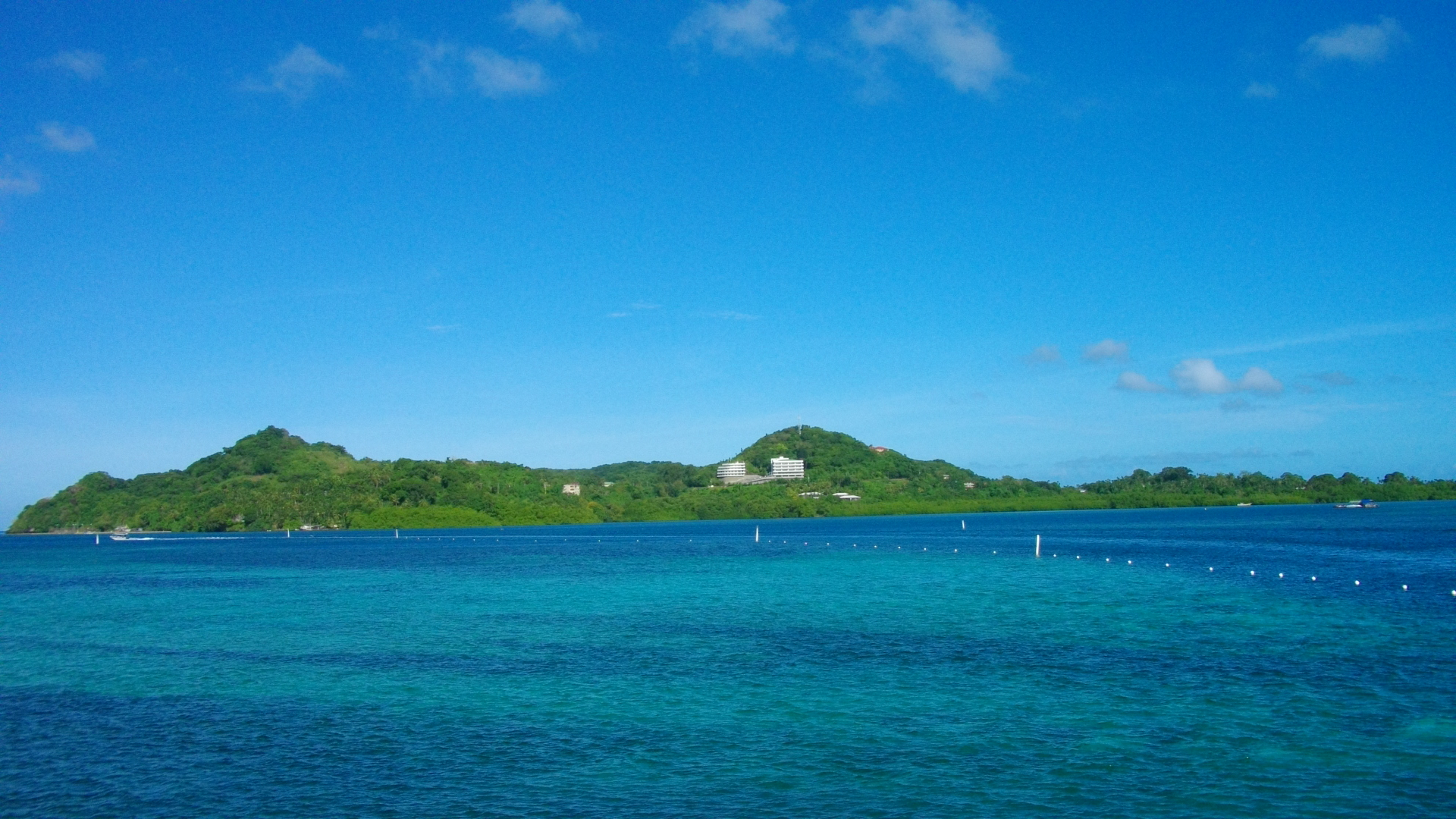 Ngerekebesang Island